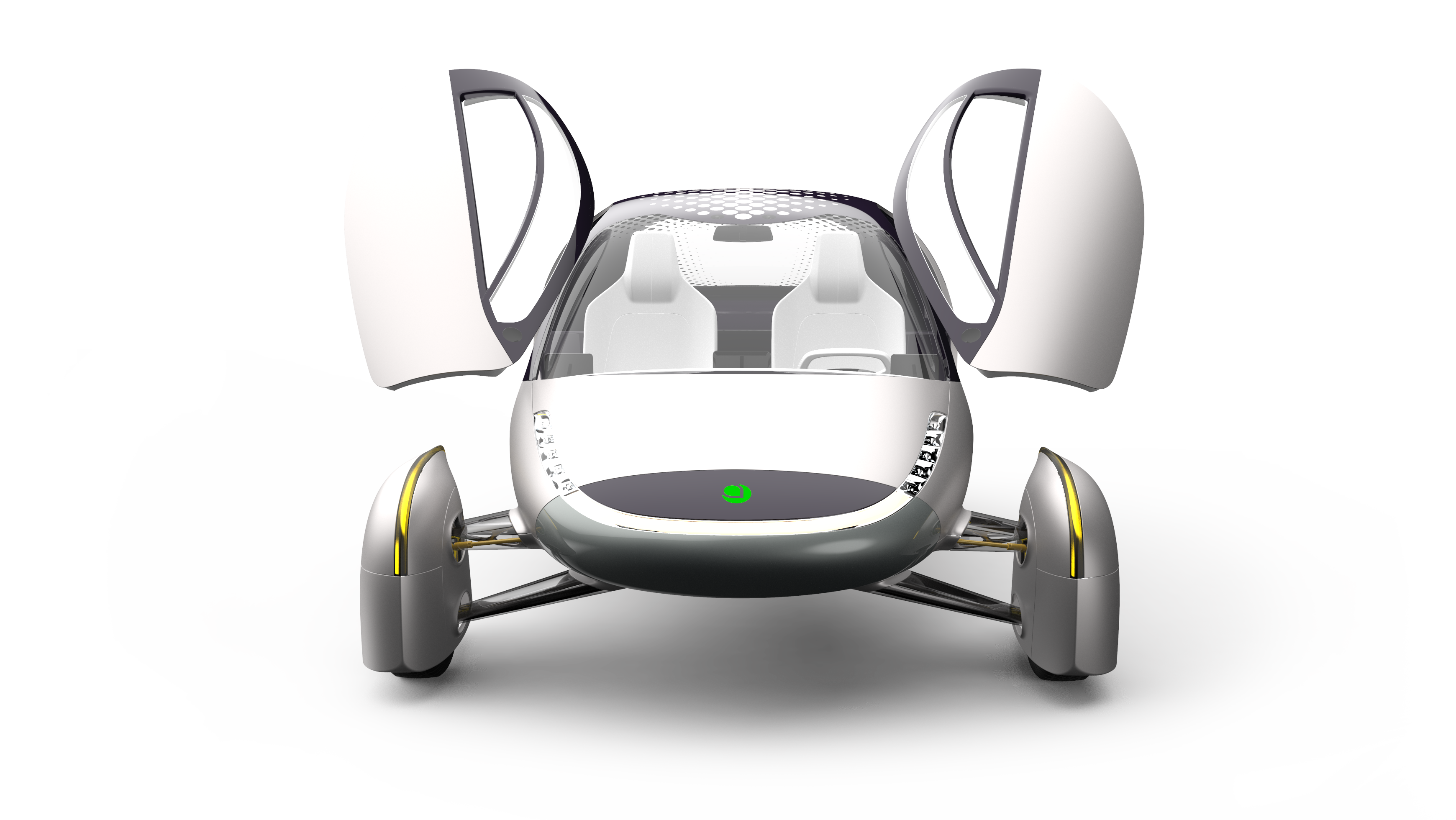 The Aptera Motors EV, a rendering of the 2019 body design illustrating the minimal 10 inch clearance needed to enter or exit the vehicle.